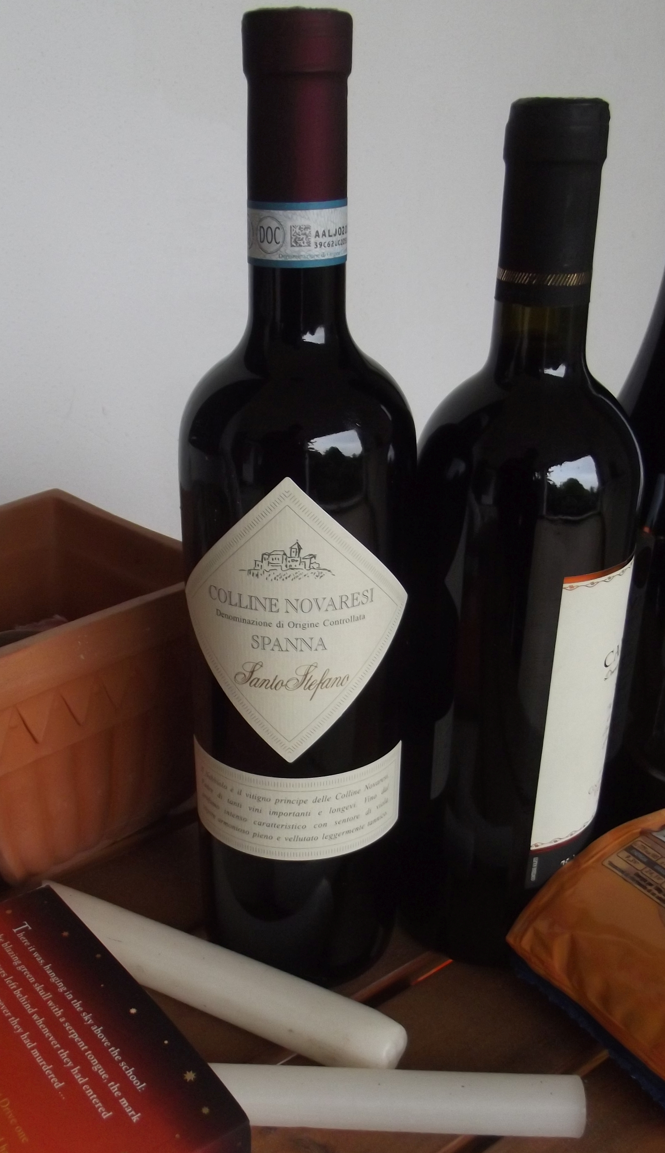 Colline Novaresi Spanna